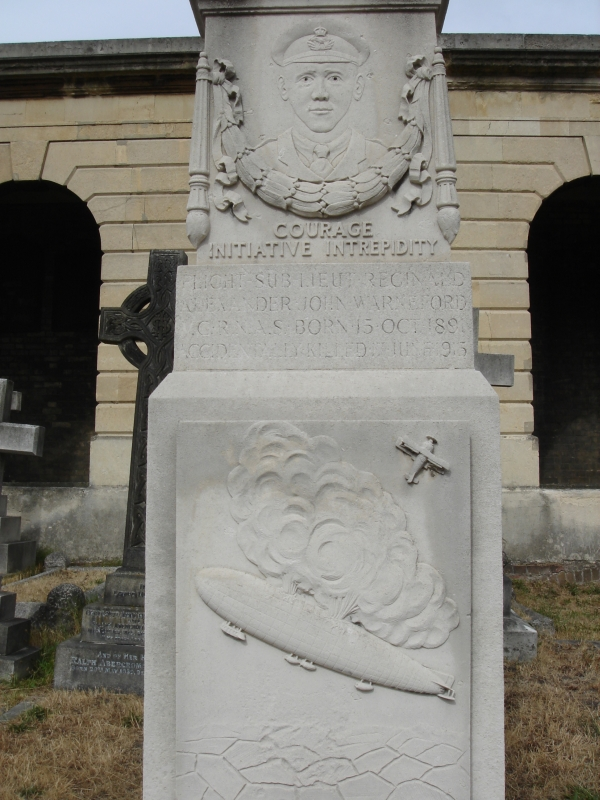 tomb of Reginald Alexander John Warneford